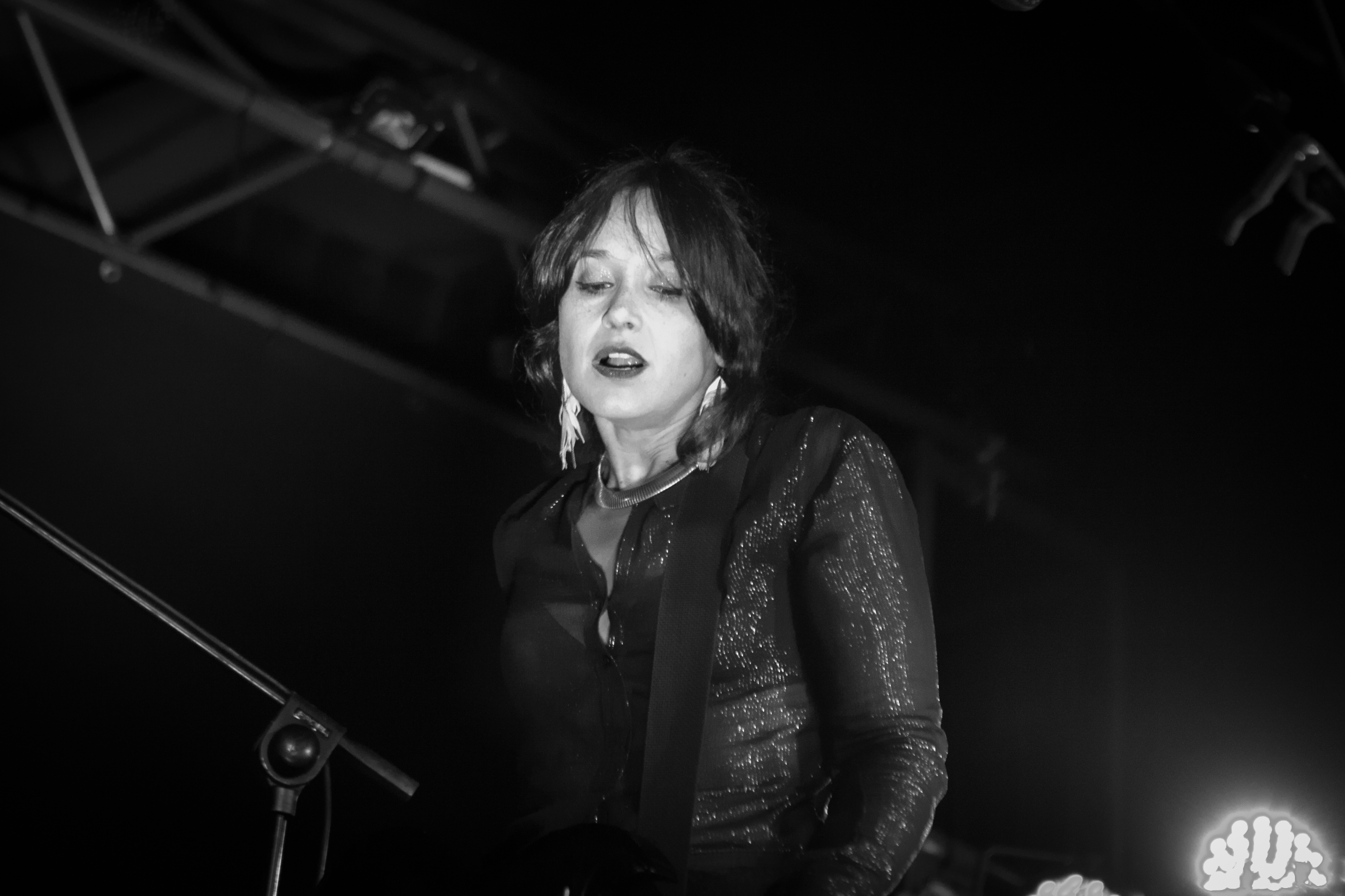 Juanita Stein of Howling Bells performs at The Tuning Fork in Auckland, New Zealand on 13 September 2014.